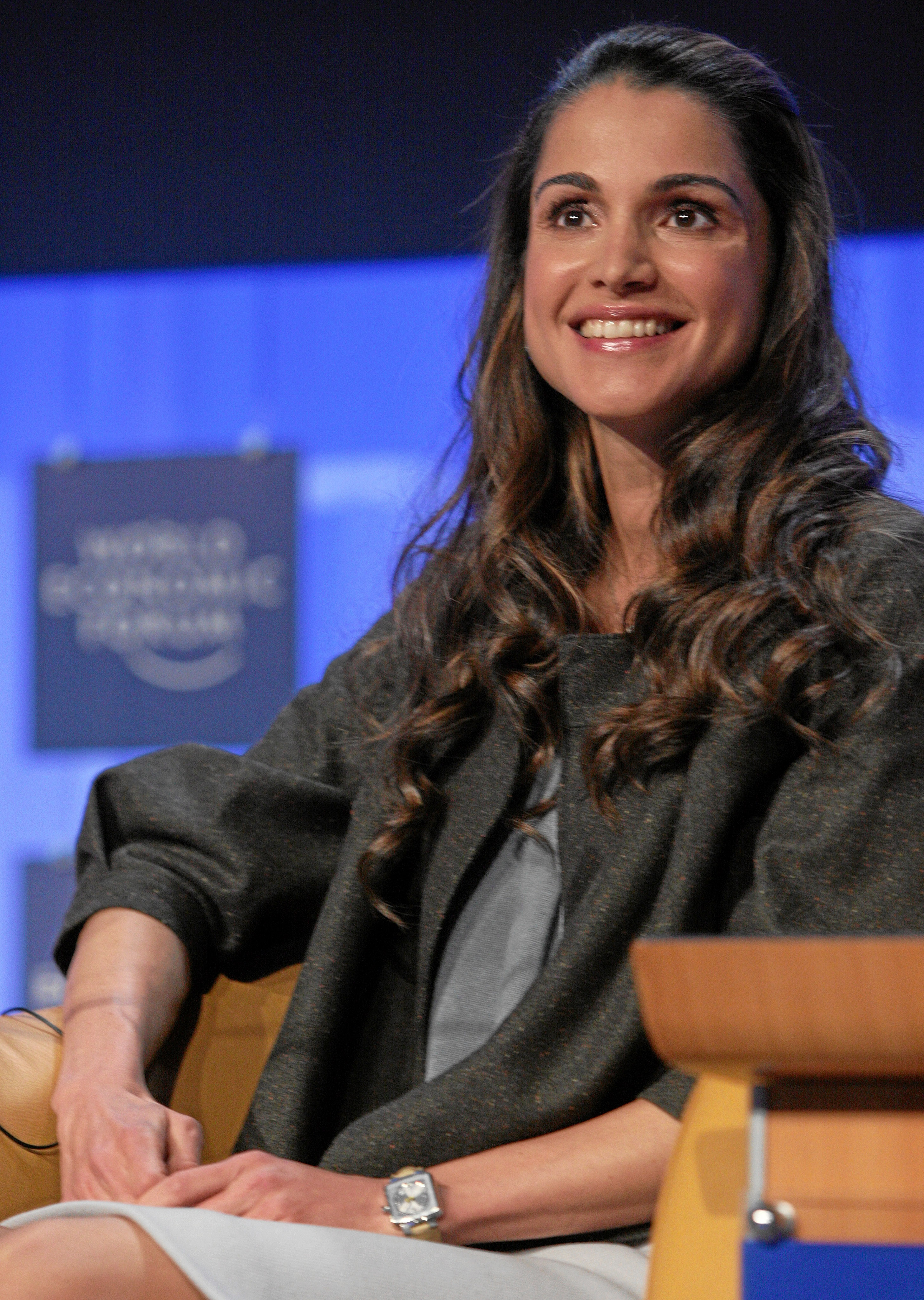 DAVOS/SWITZERLAND, 25JAN08 - H.M. Queen Rania Al Abdullah of the Hashemite Kingdom of Jordan, Member of the Foundation Board of the World Economic Forum, spreads a smile during the session 'Corporate Global Citizenship in the 21st Century' at the Annual Meeting 2008 of the World Economic Forum in Davos, Switzerland, January 24, 2008.